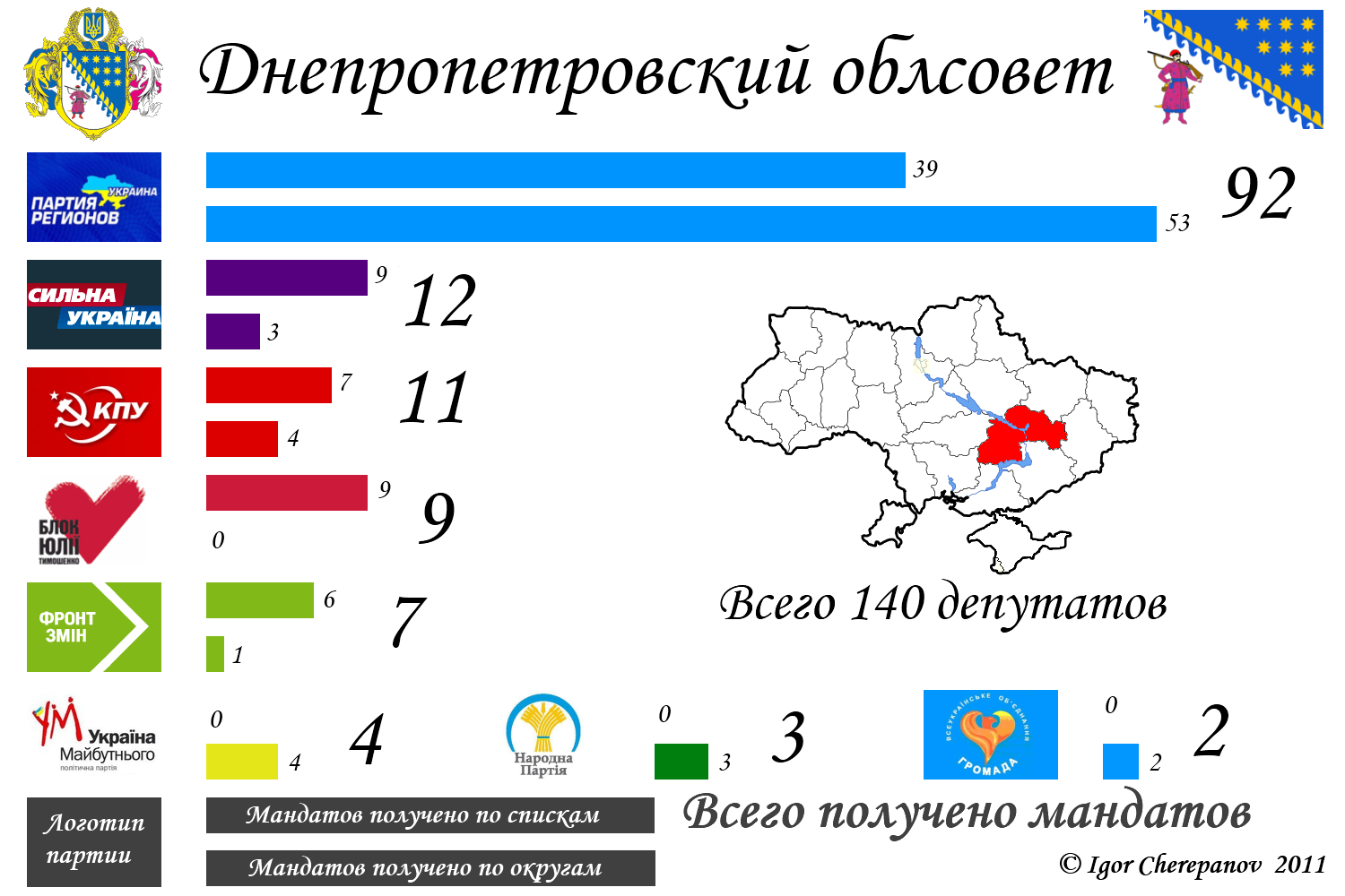 Results of Dnipropetrovsk Oblast local election 2010